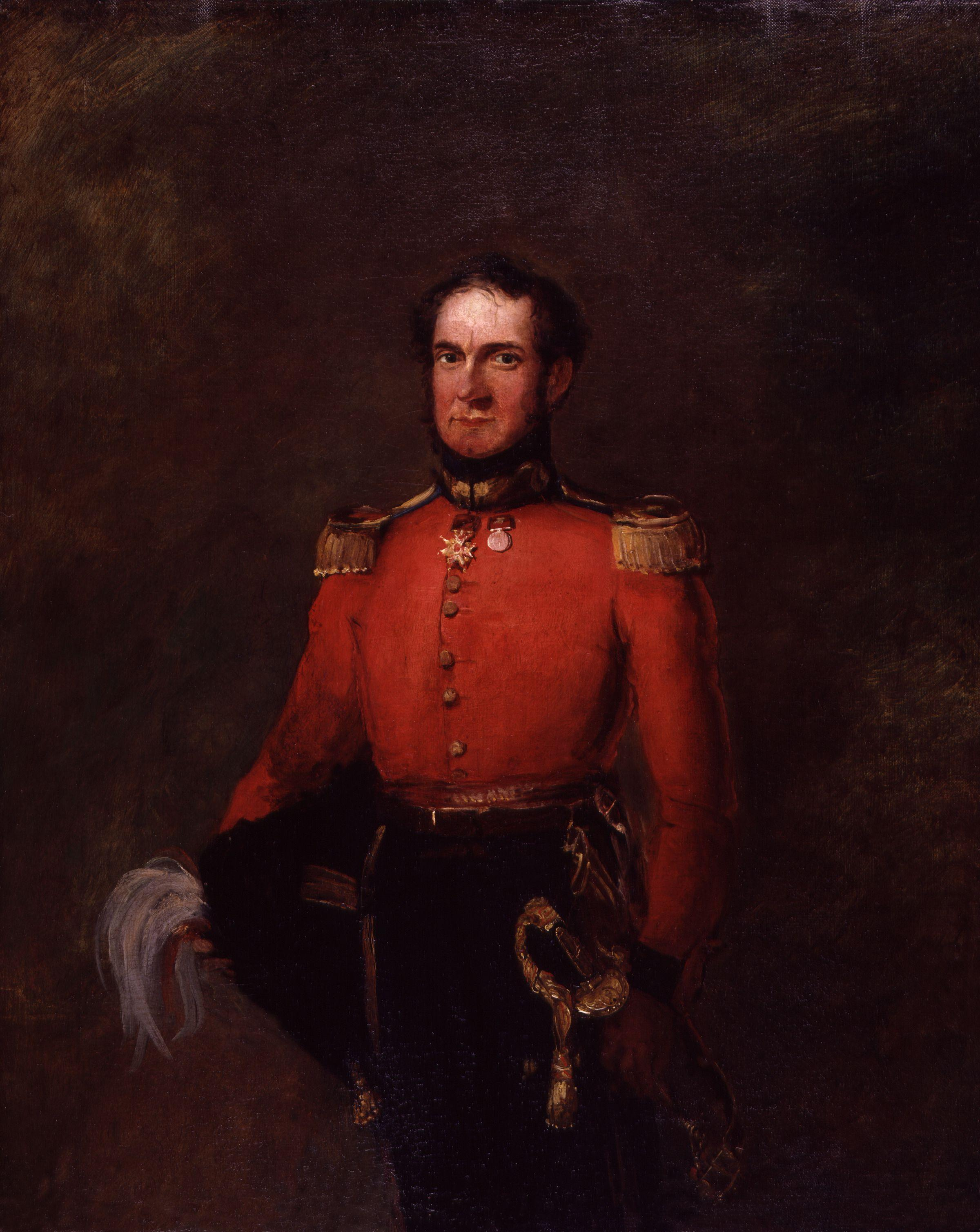 John Gurwood, by William Salter (died 1875). All images in this batch have been confirmed as author died before 1939 according to the official death date listed by the NPG.